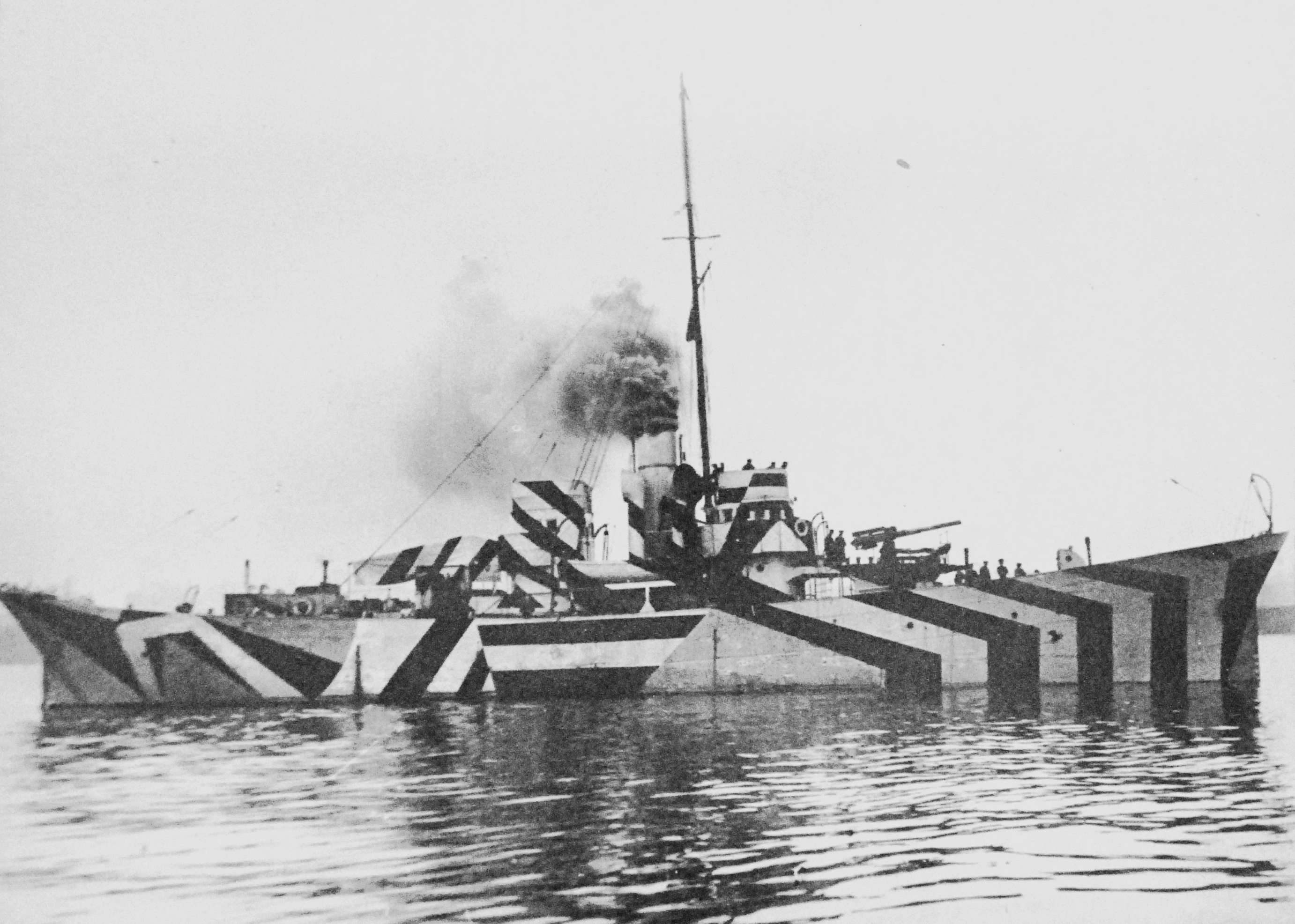 Lot 9609-25: Royal Navy (British) during the First World War. Royal Navy Kil class sloop/gunboats, HMS Kilbride in dazzle camouflage. Facing both ways one of the 70 odd gunboats of the “Kil” class which were designed to confuse the U-boats. Collection was transferred from a British government source in 1920 to the Library of Congress. (9/18/2015).